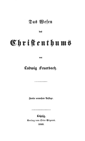 Title page of book in public domain.